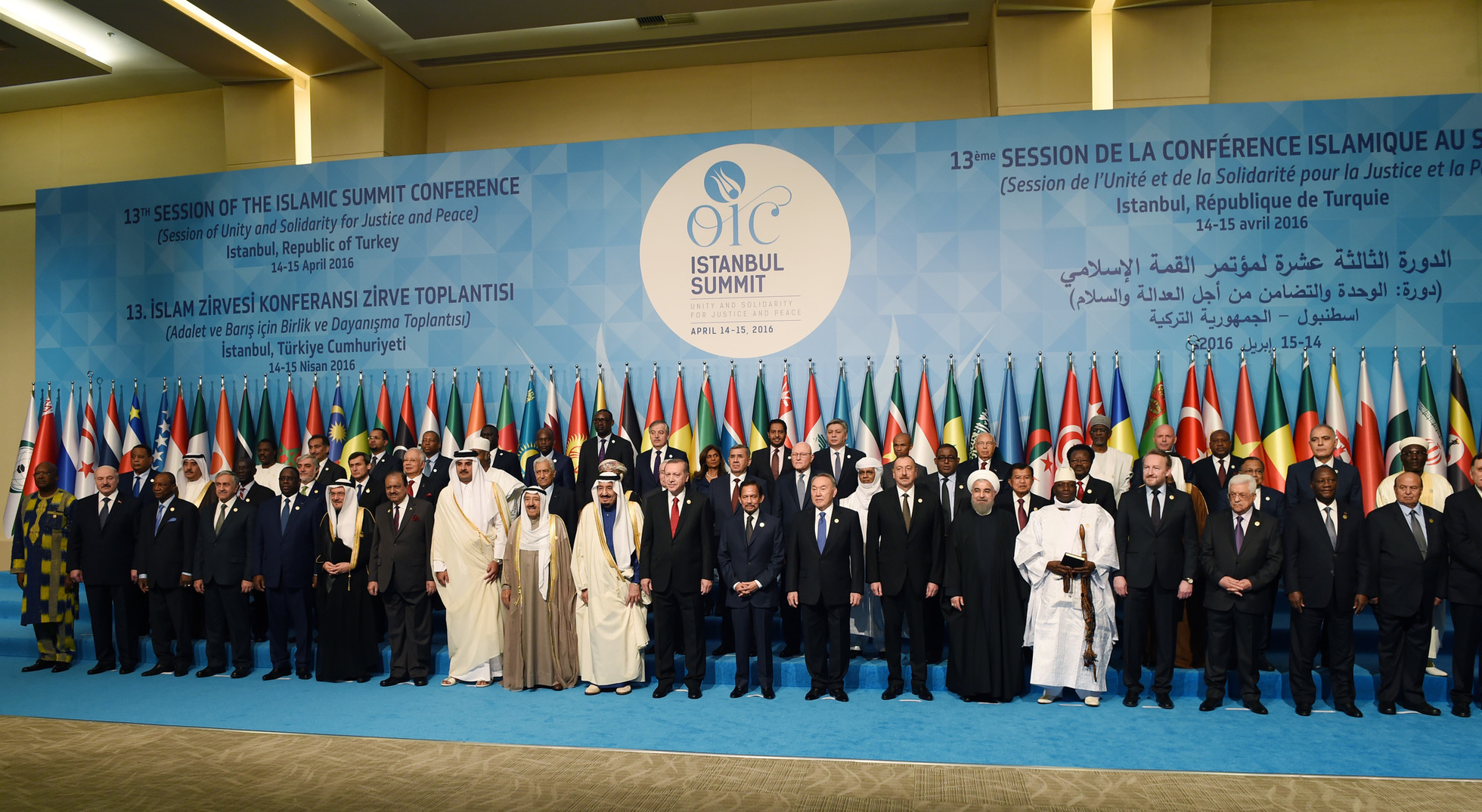 Family photo of 13. Session of the Islamic Summit Conference in Istanbul, Turkey.